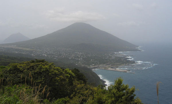 Hachijojima and the main settlement, Izu Islands, Japan. Source: Image:Hachijo-Jima-Izu.jpg